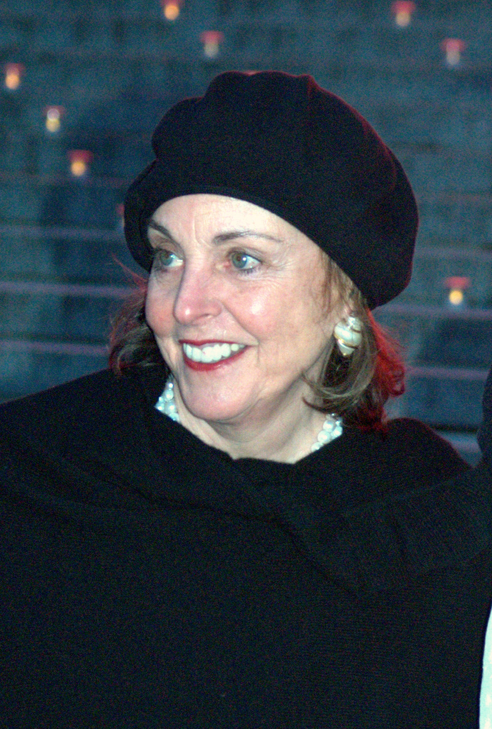 Nan Talese at the Vanity Fair kickoff part for the 2009 Tribeca Film Festival.